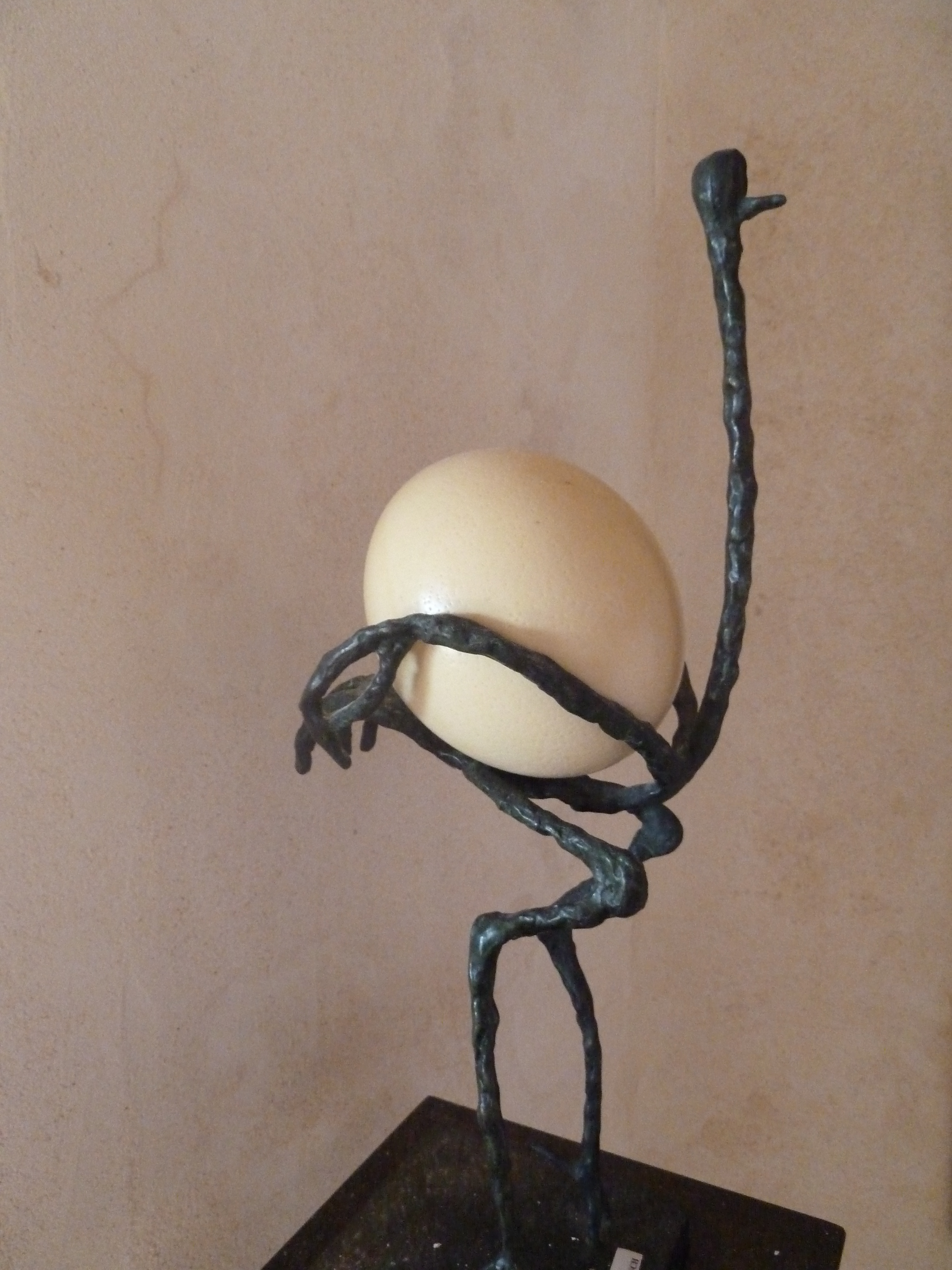 "Ostrich", Sculpture by Diego Giacometti, displayed at the Ilana Goor Museum, Jaffa